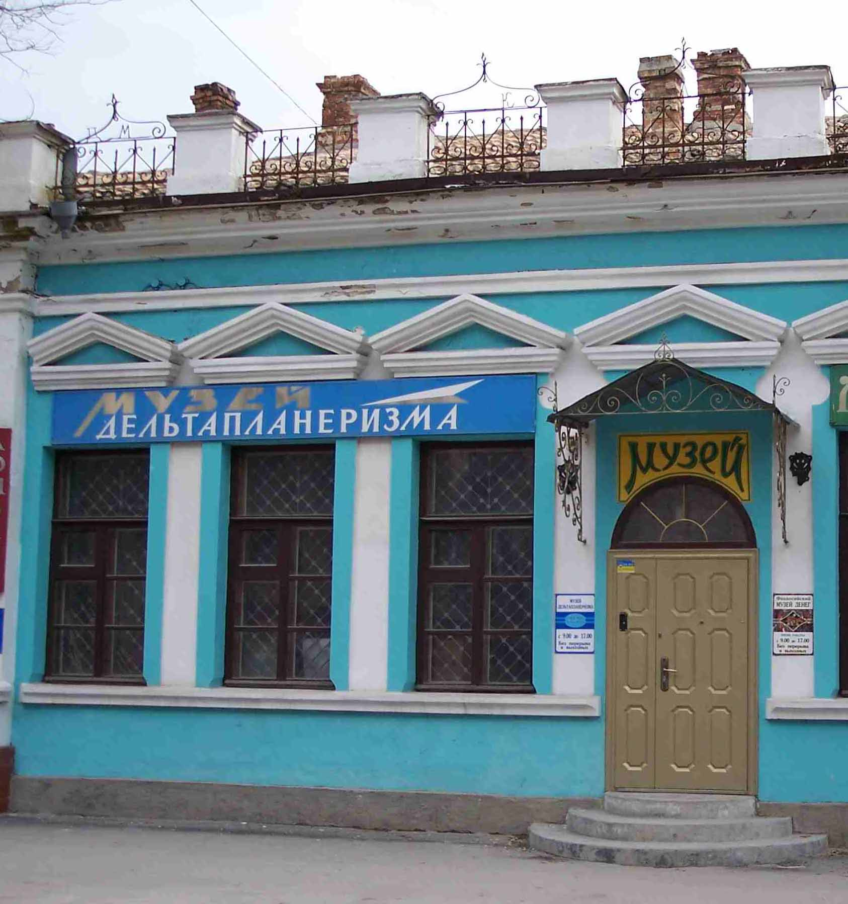 Museum of Hang Gliding, Feodosia, Crimea, Ukraine